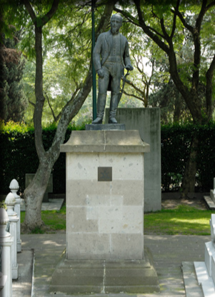 Sepulcro de Leandro Valle en la Rotonda de las Personas Ilustres de la Ciudad de México.